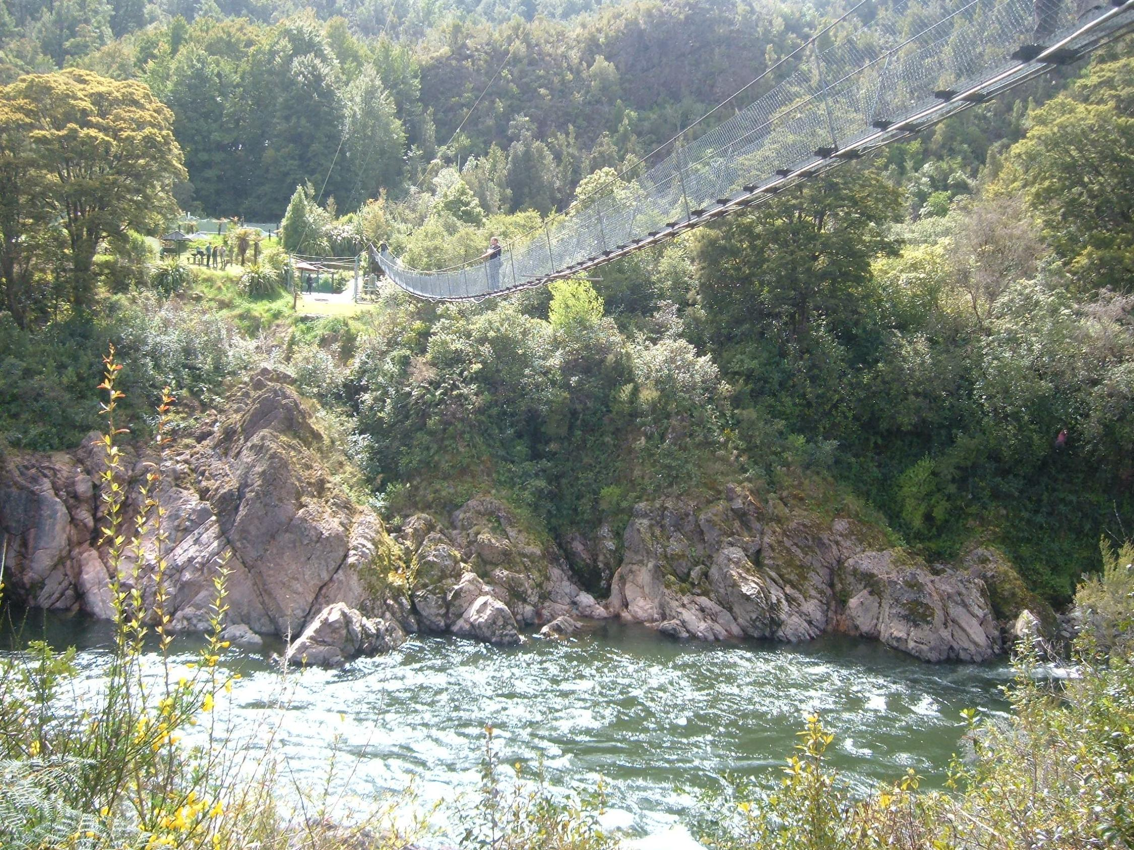 Buller Gorge, West Coast, NZ